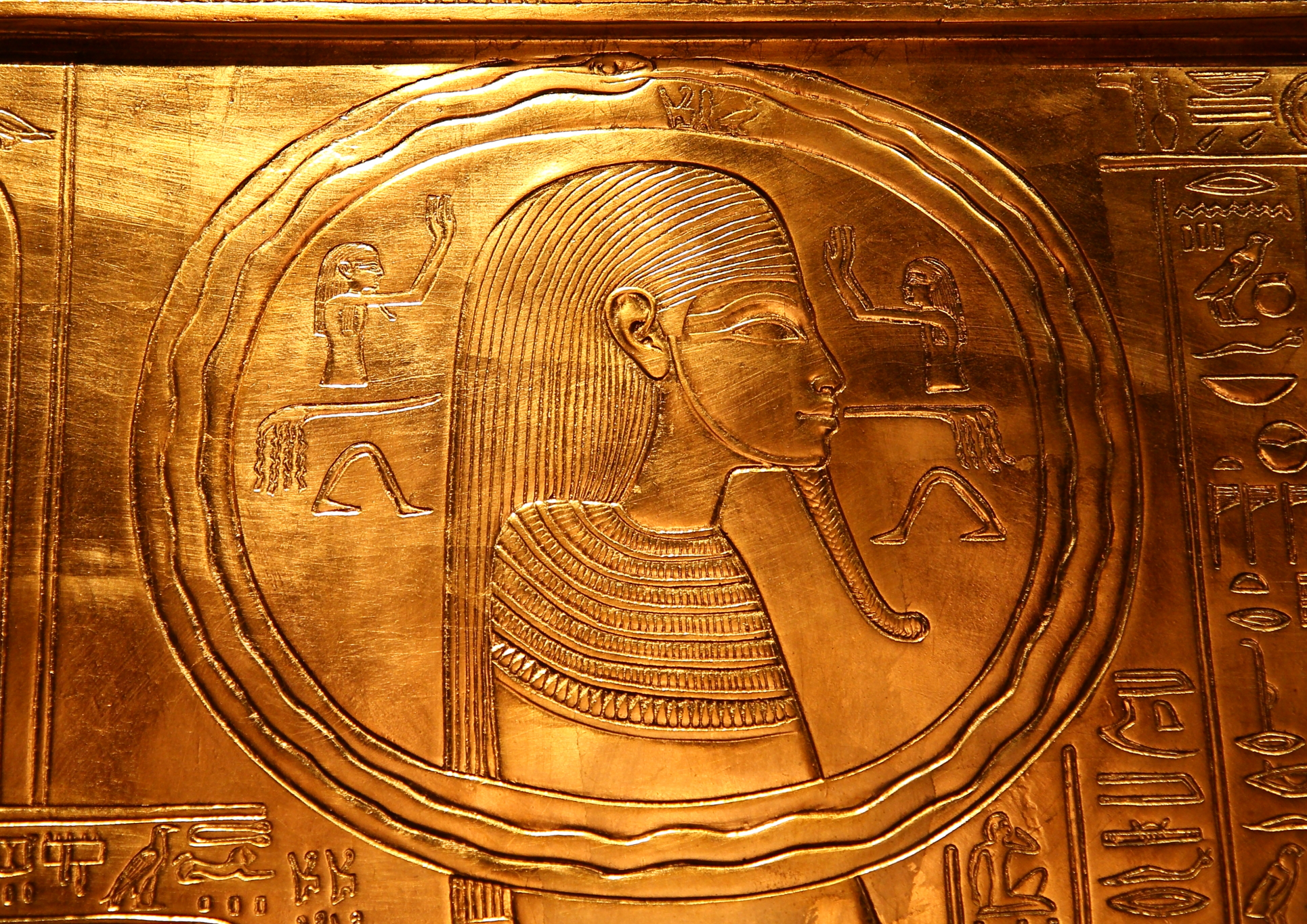 A view of deities carved on a replica of Tutankhamun's gilded shrines shown on display at Frankfurt, Germany.